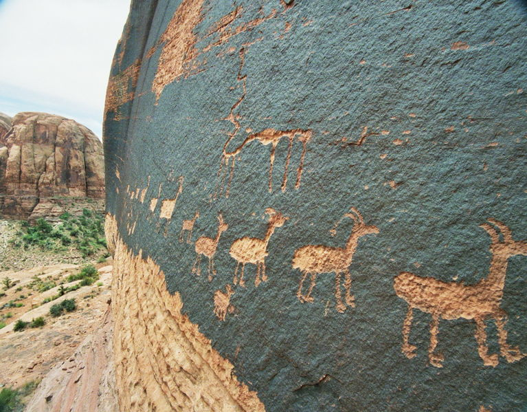 Petroglyph depicting a row of bighorn sheep near Moab, Utah. A fairly common motif in the deserts of North America.